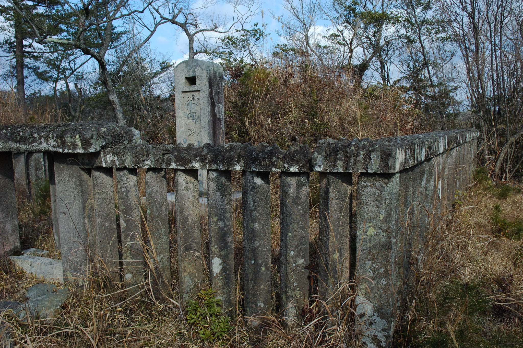 grave of Ikeda Masatora in Nana-no-oyama